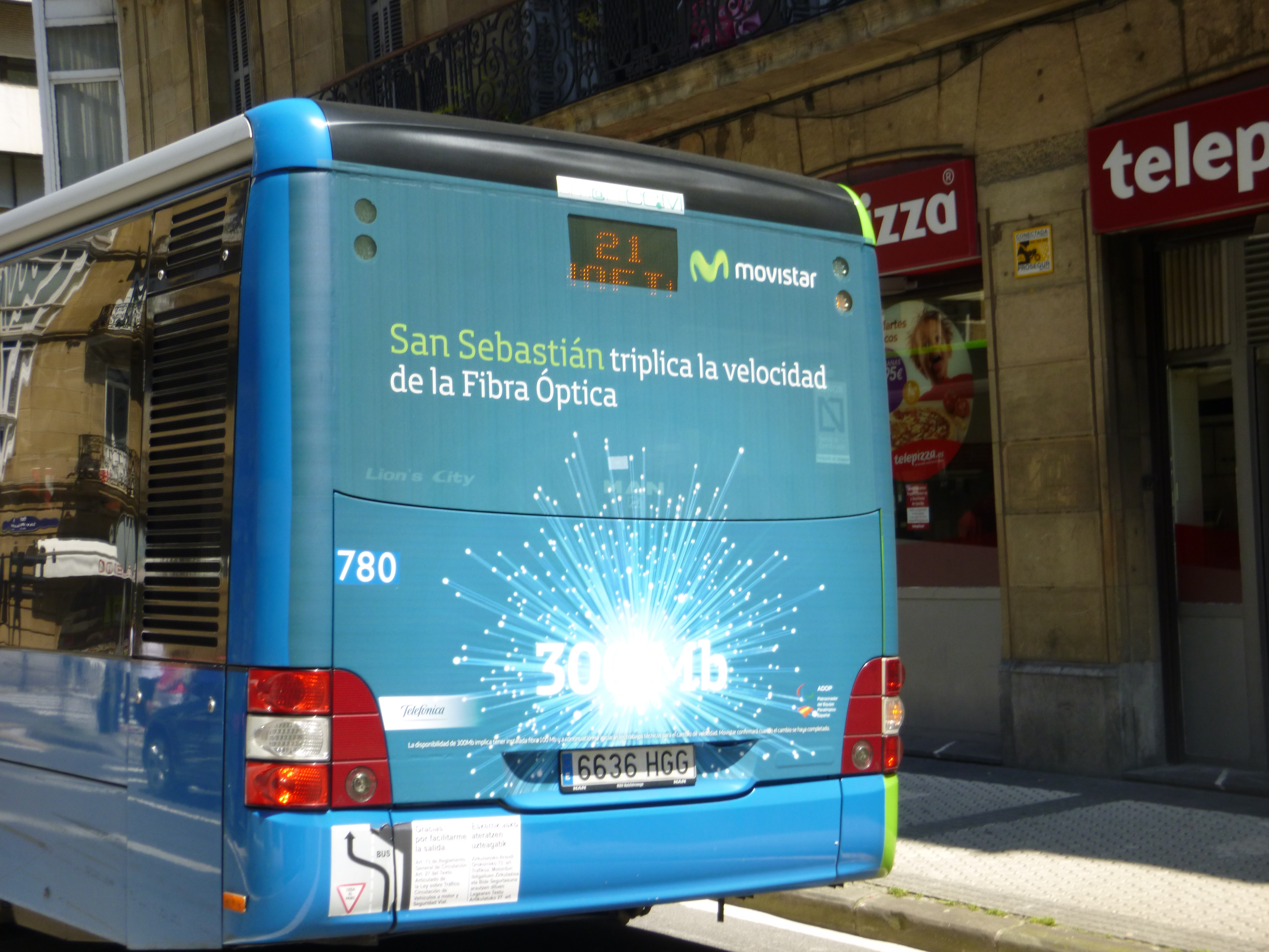 San Sebastian monolingual name in Donostia, 2015.